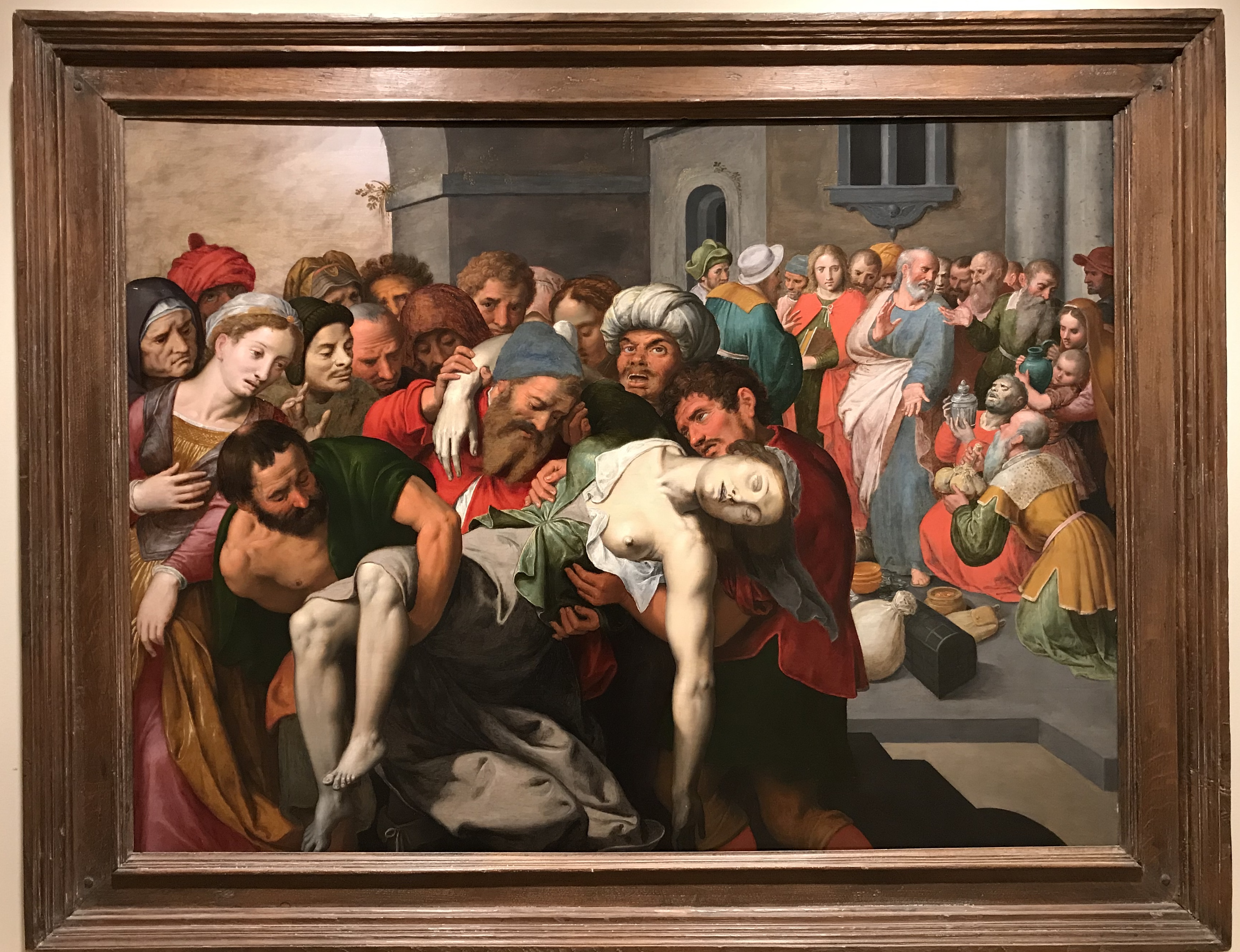 The Death of Sapphira by Ambrosius Francken the Elder, Schorr Collection